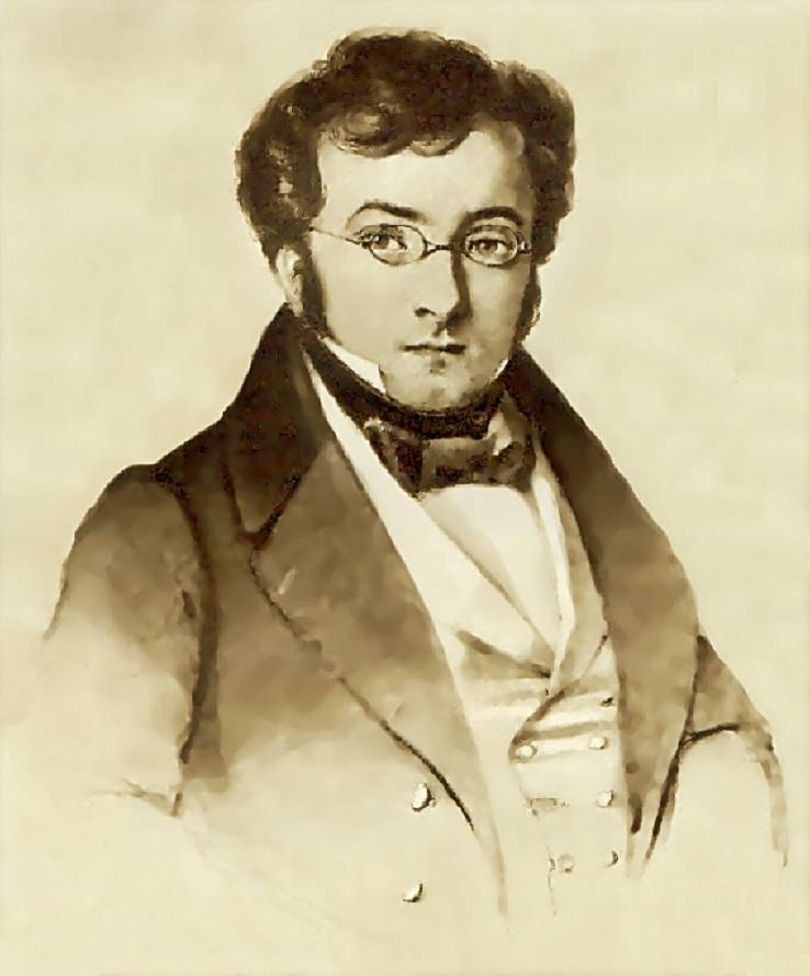 Jean Baptiste Nothomb